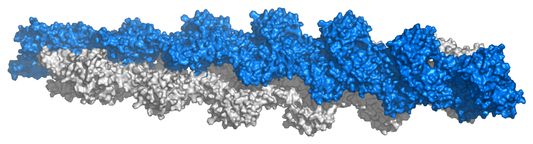 atomic structure of an actin filament with 13 subunits, based on actin filament model of Ken Holmes; surface representation, rendered with PyMol